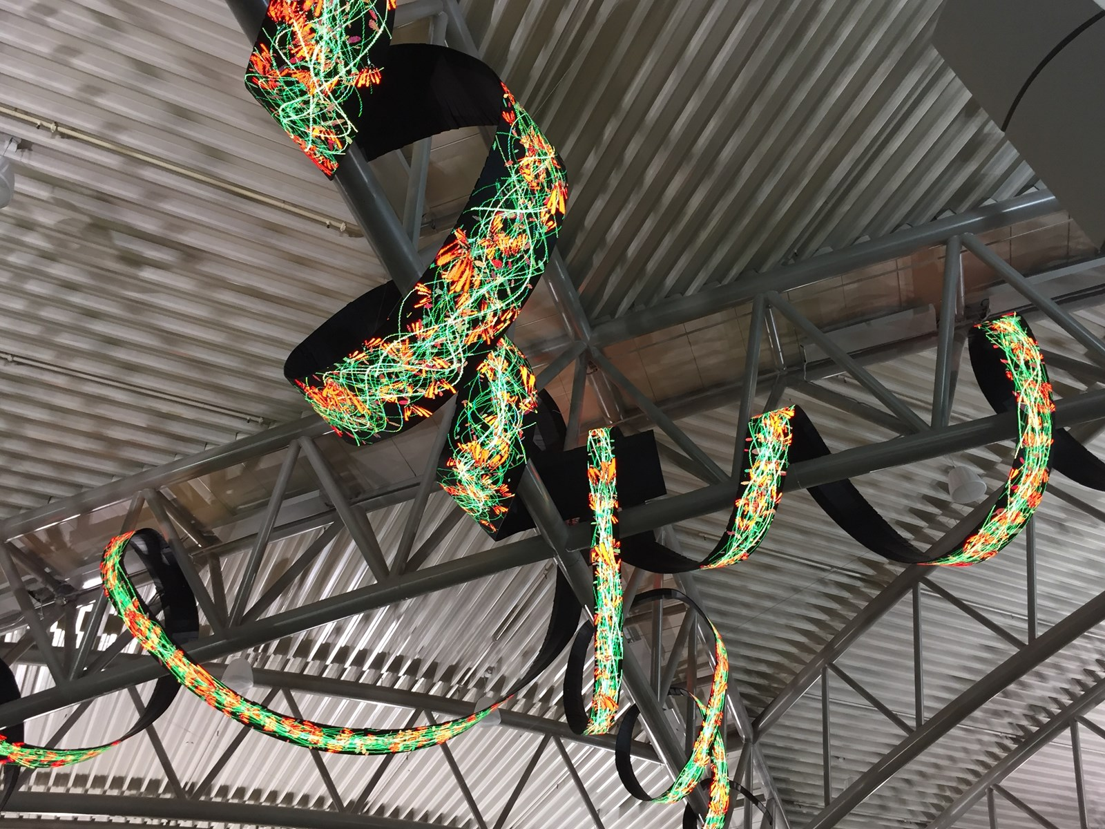 Permanent sculptural LED video installation made by Daniel Canogar for the Tampa International Airport in 2017.